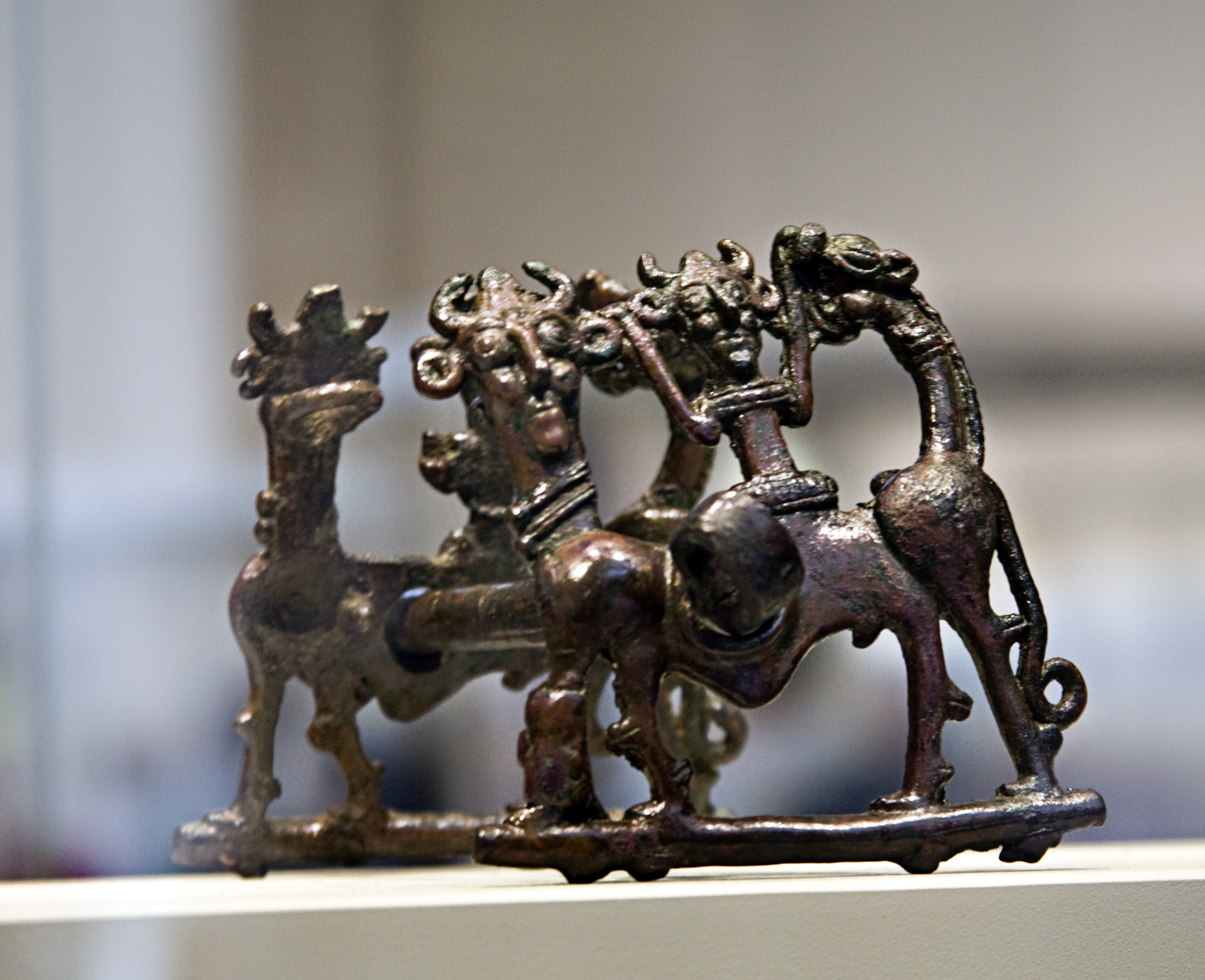 A Luristan bronze bridle bit with human riding on horses in the British Museum. Tag on exhibit reads: "Luristan bronzes: 9th-8th century BC, Luristan. "Master of animals" 123276." See BM database entry for more details